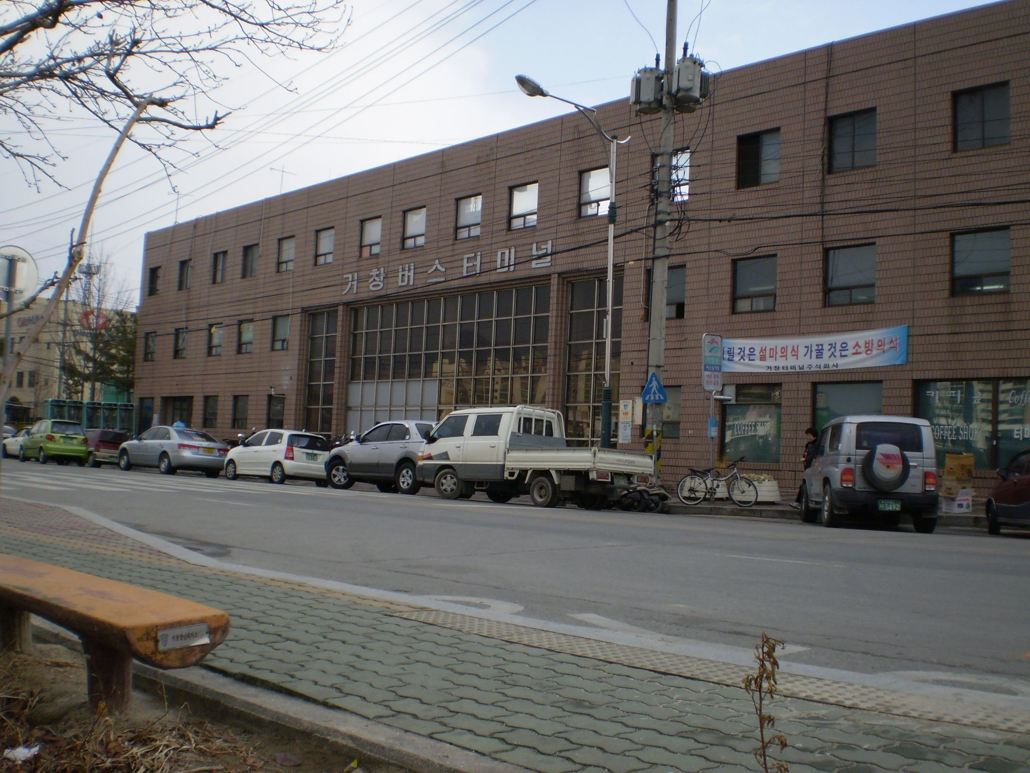 Intercity bus terminal in Geochang, Gyeongsangnam-do, South Korea.